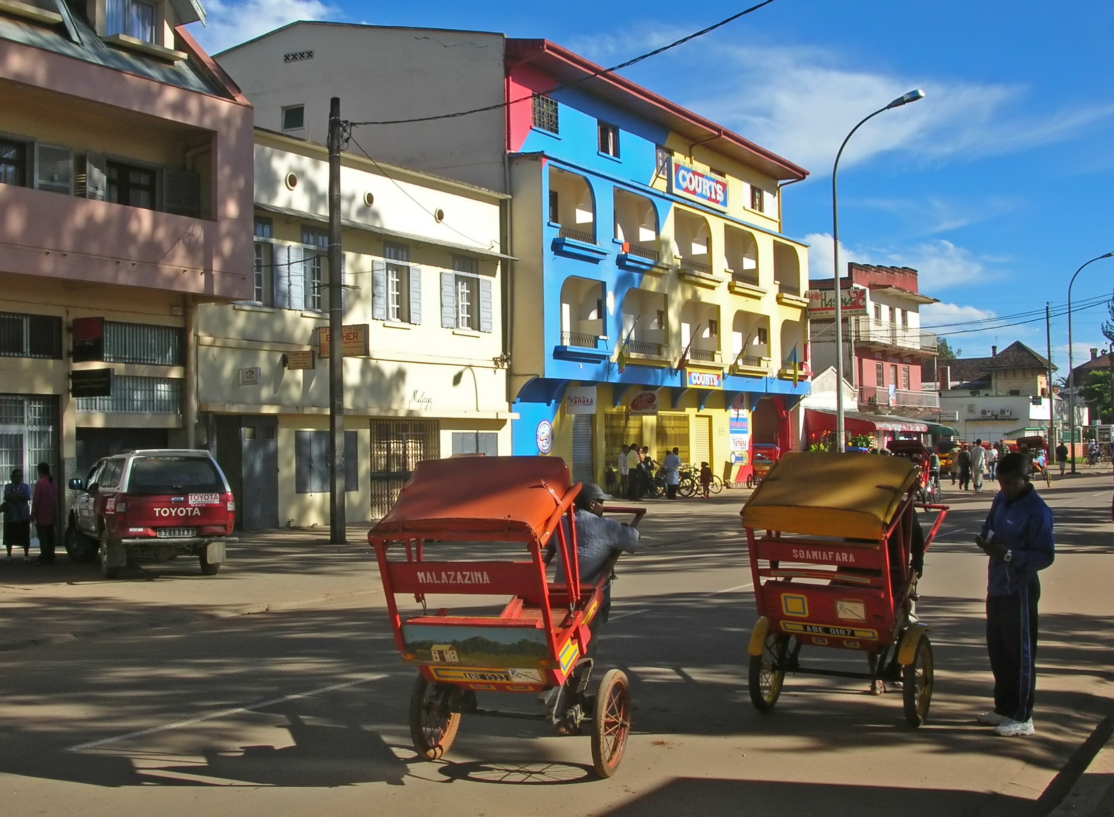 Hasina hotel on Jean Ralaimongo avenue, Antsirabe, Madagascar